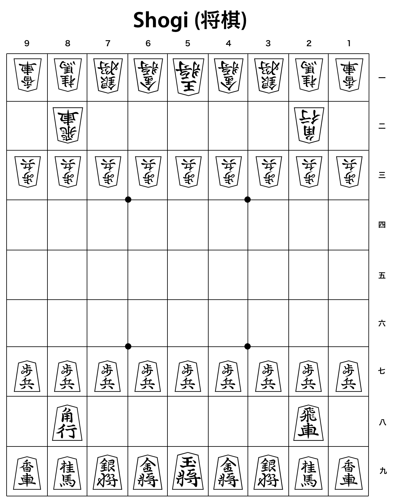 Made by me, Krun. For the pieces I used the Ohshou font.